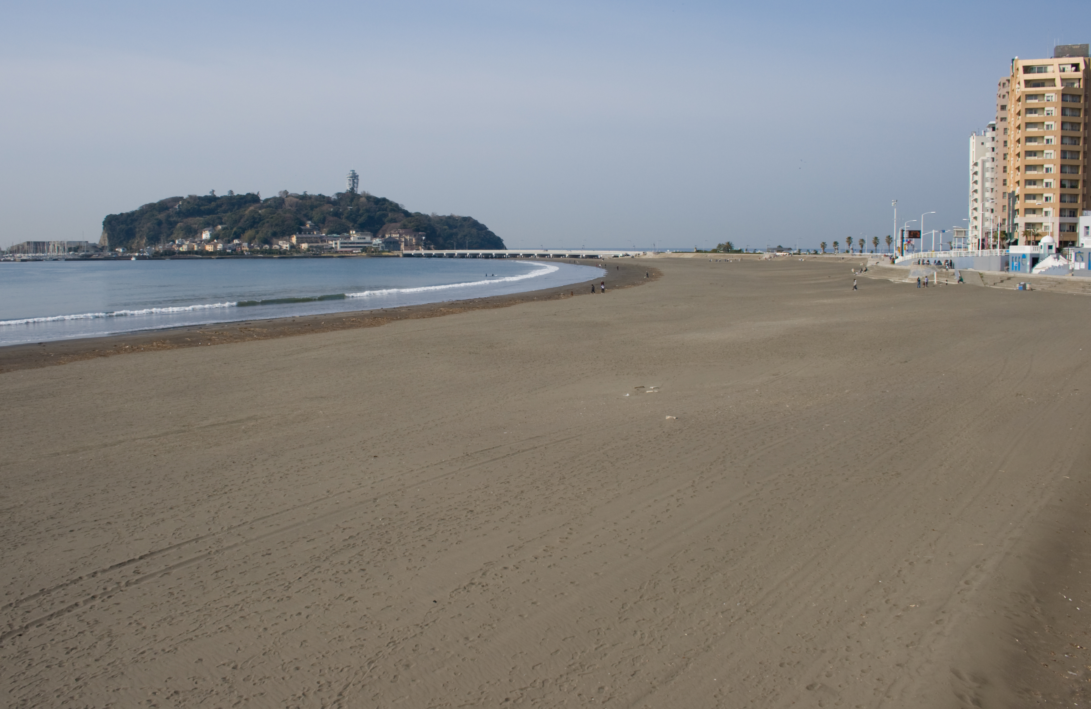 Enoshima Island